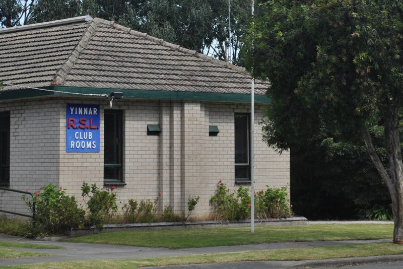 The Yinnar RSL club rooms in Main Street, Yinnar, Victoria, Australia.